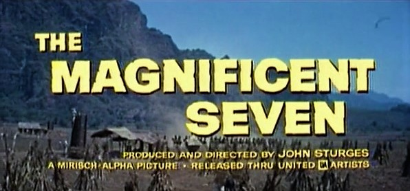 This image is a screenshot from a public domain trailer for the 1960* film, The Magnificent Seven. Trailers for movies released before 1964 are in the Public Domain because they were never separately copyrighted.